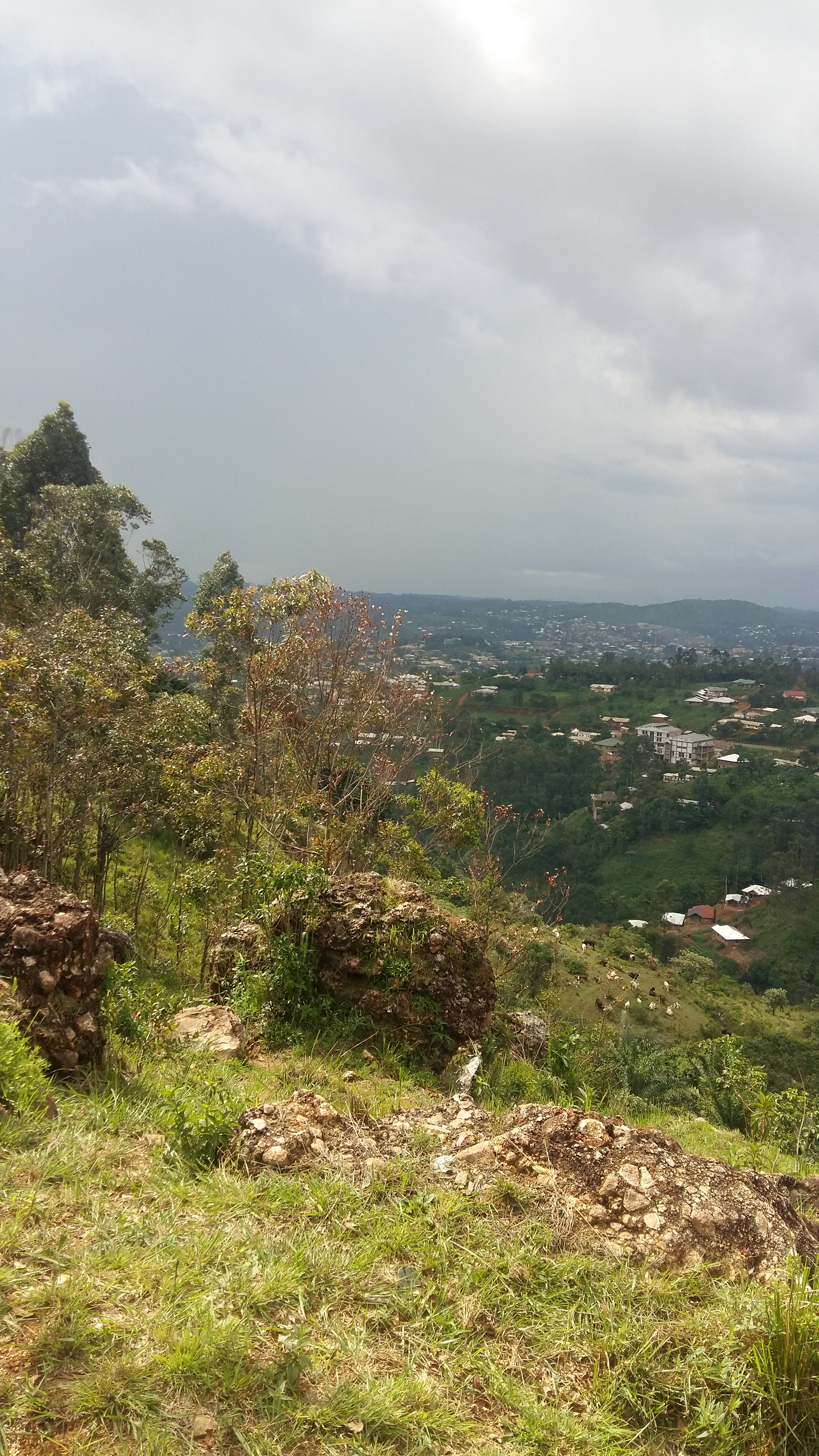 Beatiful view of Nkwen subdivision from Upstation